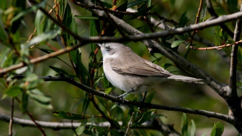 Lesser Whitethroat (Sylvia curruca)